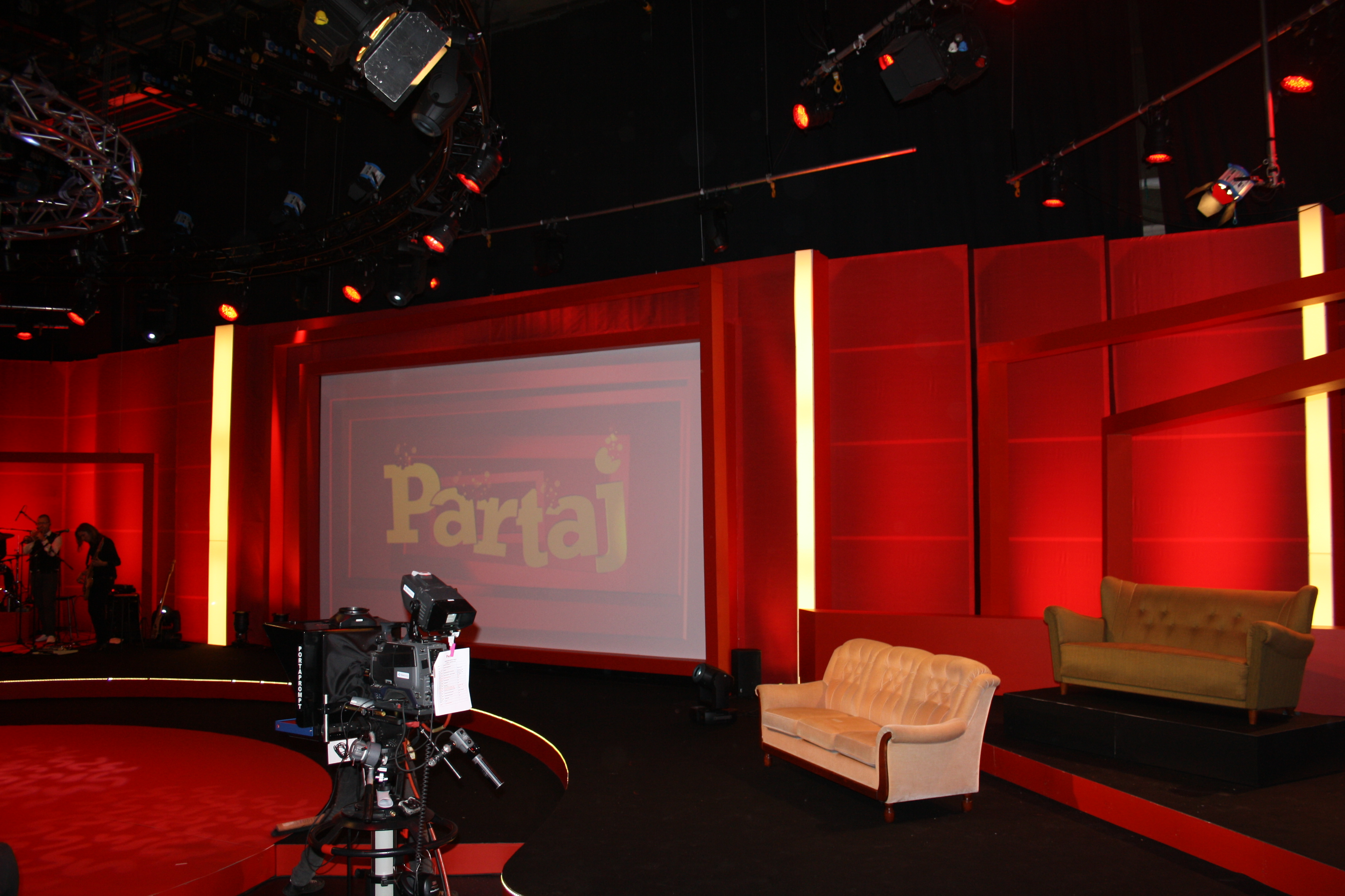 Photo taken from Swedish TV-show Partaj.